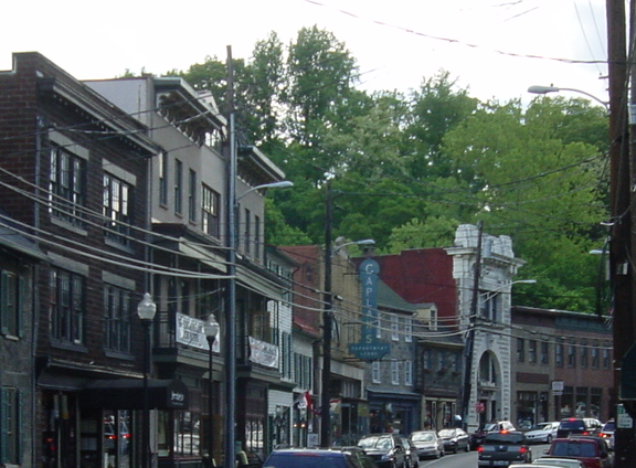 David J. Brantley